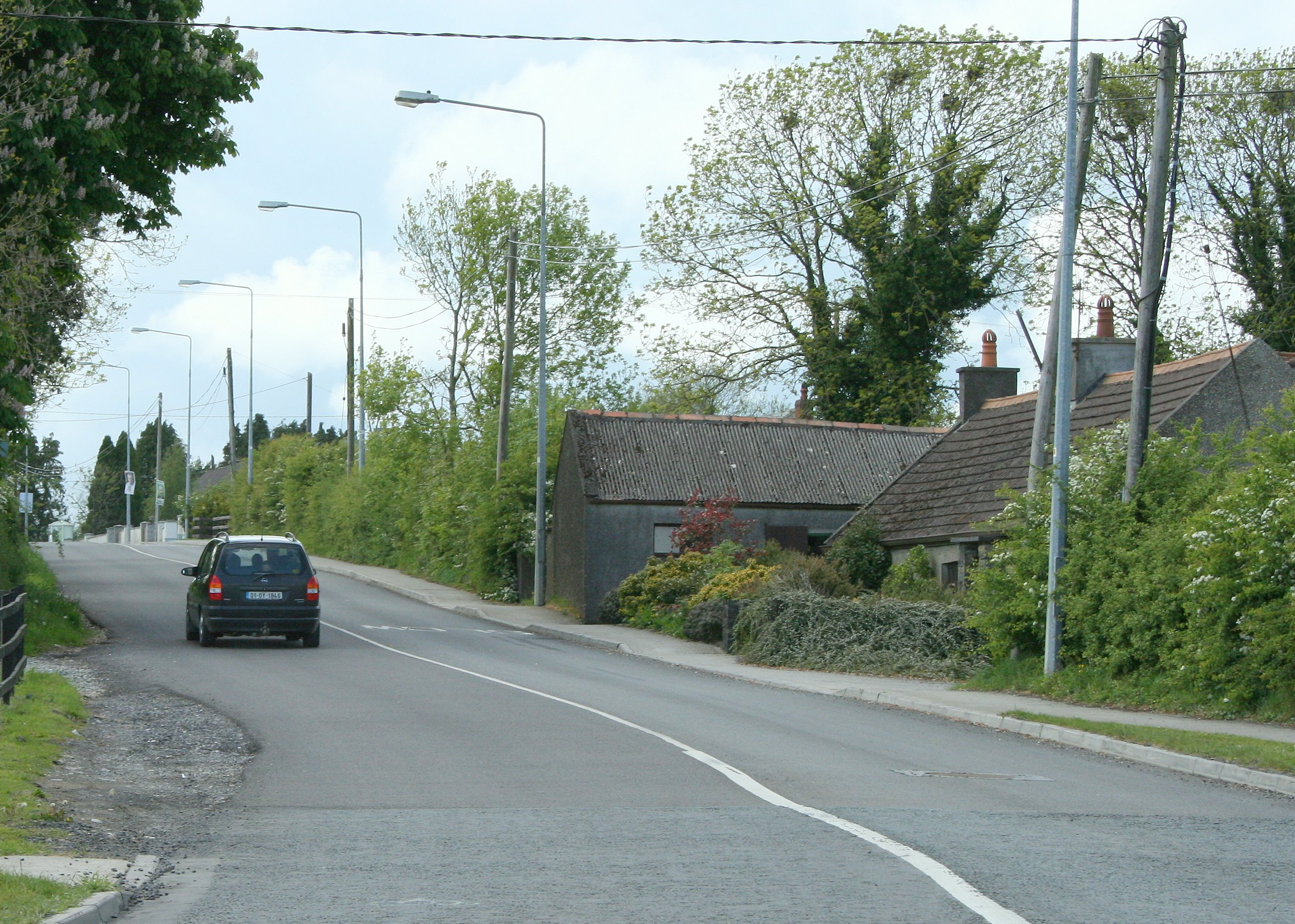 R430 regional road lined with pole mounted street lights on 90-degree bended utility poles, Newtown, County Laois, Ireland.